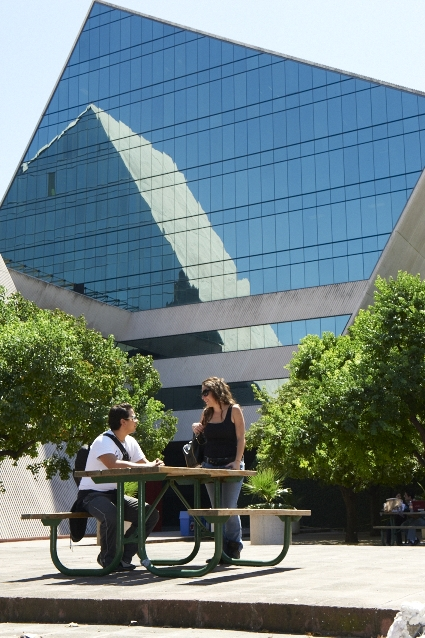 Edificio de CETEC